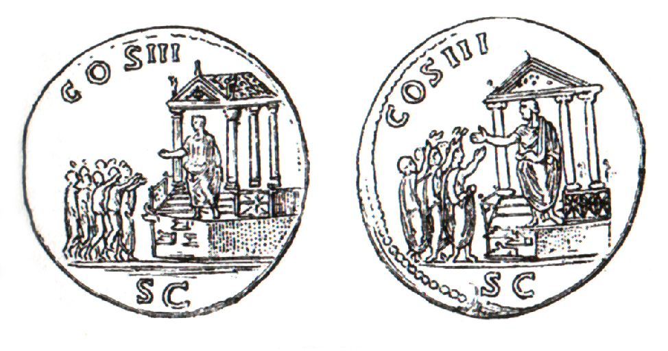 Hadrian Coins struck between 125 AD and 128 AD with a clear representation of the Rostra ad Divi Iuli and the Temple of Divus Iulius during a speech by Hadrian himself.